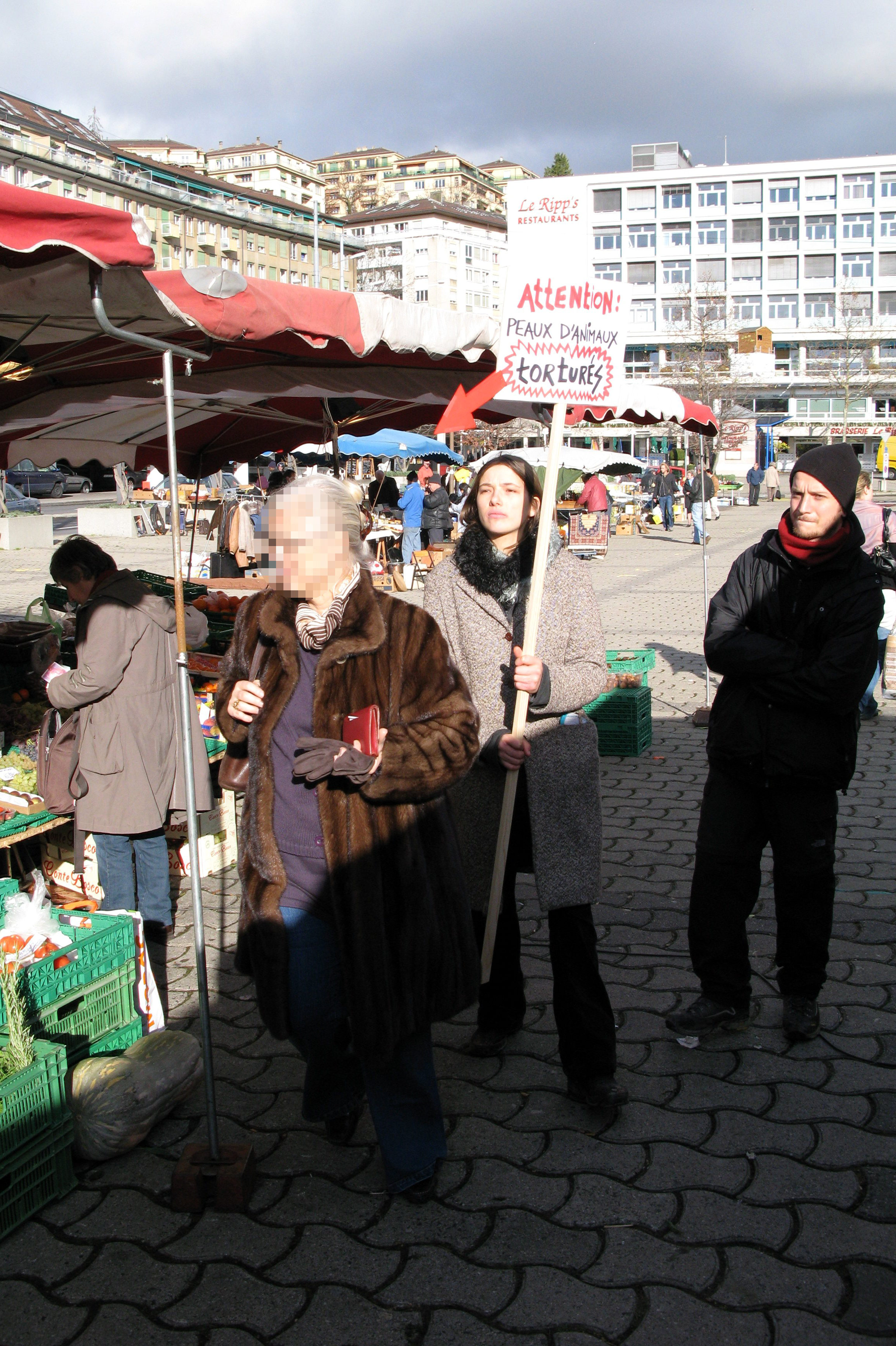 Anti-fur activists stalking fur clothing wearers with a sign reading 'Attention! Skin of tortured animals'.